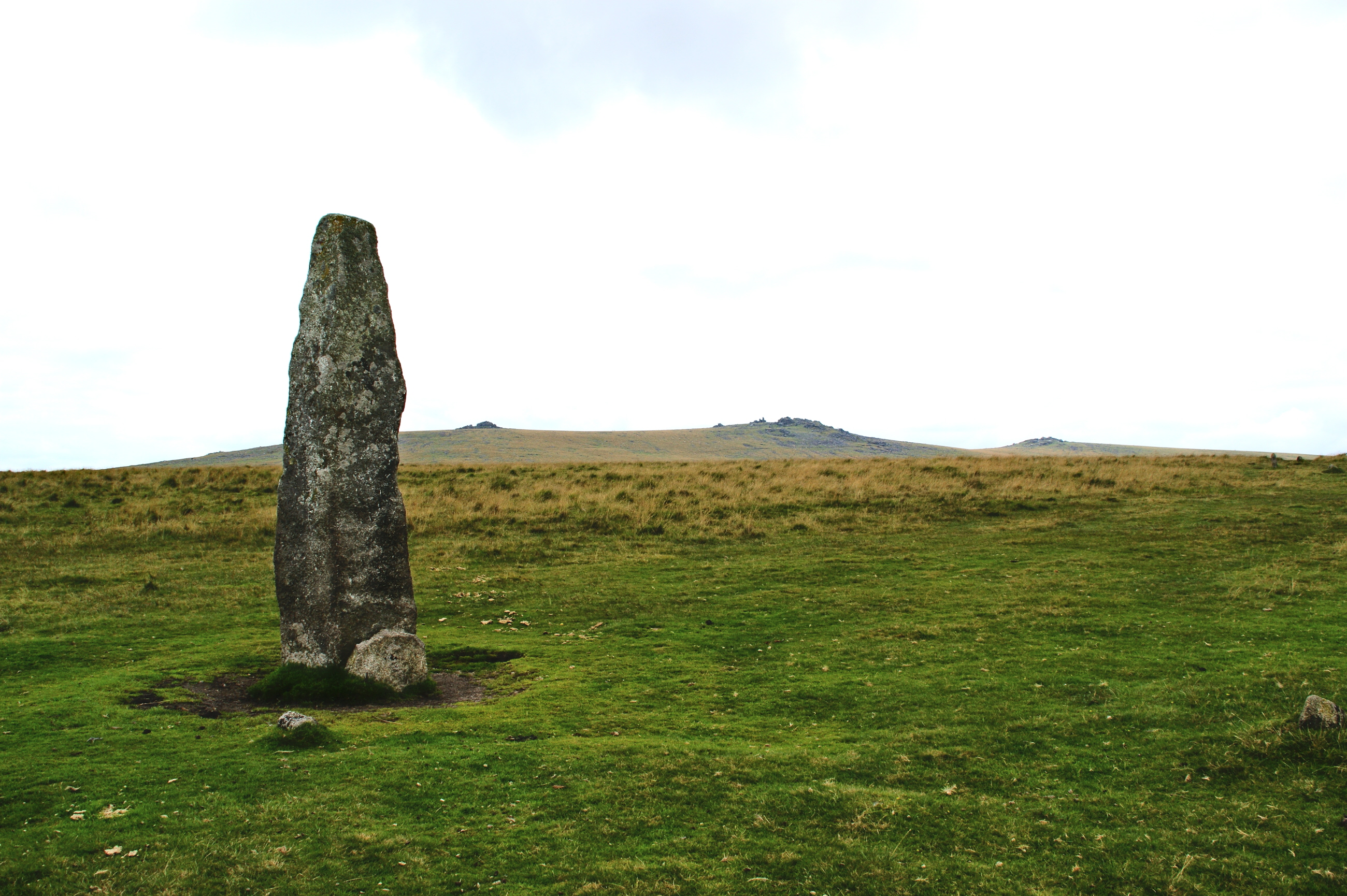 Menhir at Merrivale (Dartmoor). Staple Tors can be seen in the background.